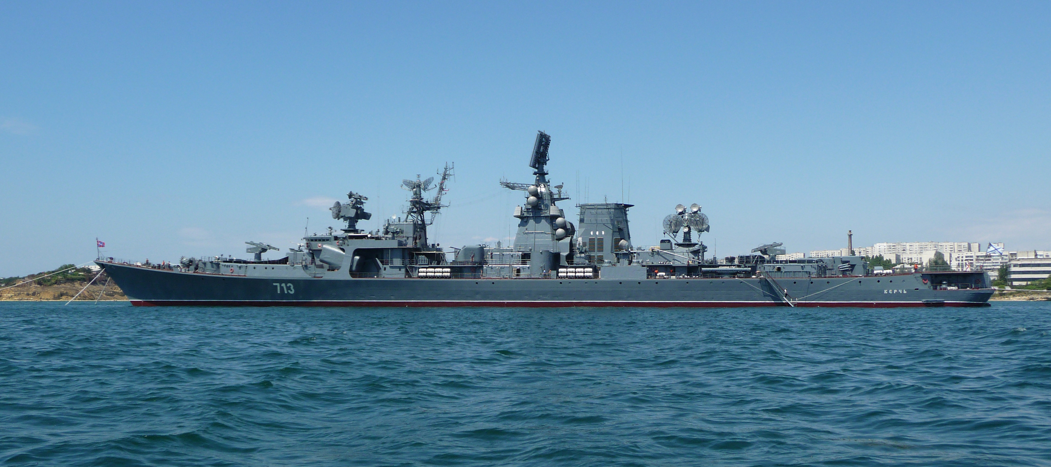 Large ASW Destroyer (also known as cruiser) "Kerch" (Kara class). Project 1134B. At the moment the photo was taken it belongs to th 30-th brigade of the surface ships of the Black Sea fleet. Photo taken in Sevastopol bay from a boat.